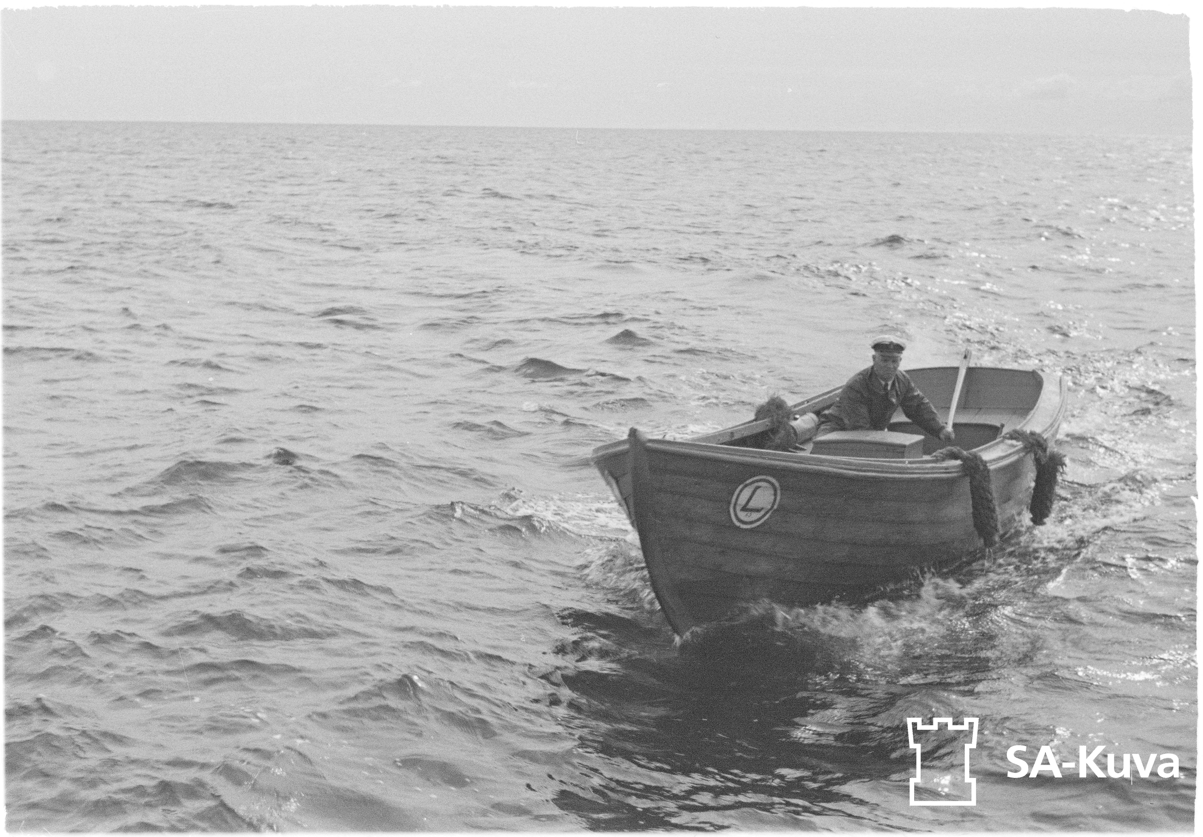 "With a convoy over the Sea of Åland: Kobba Klintar and the maritime pilot". Picture by Fenrik L. Zilliacus.